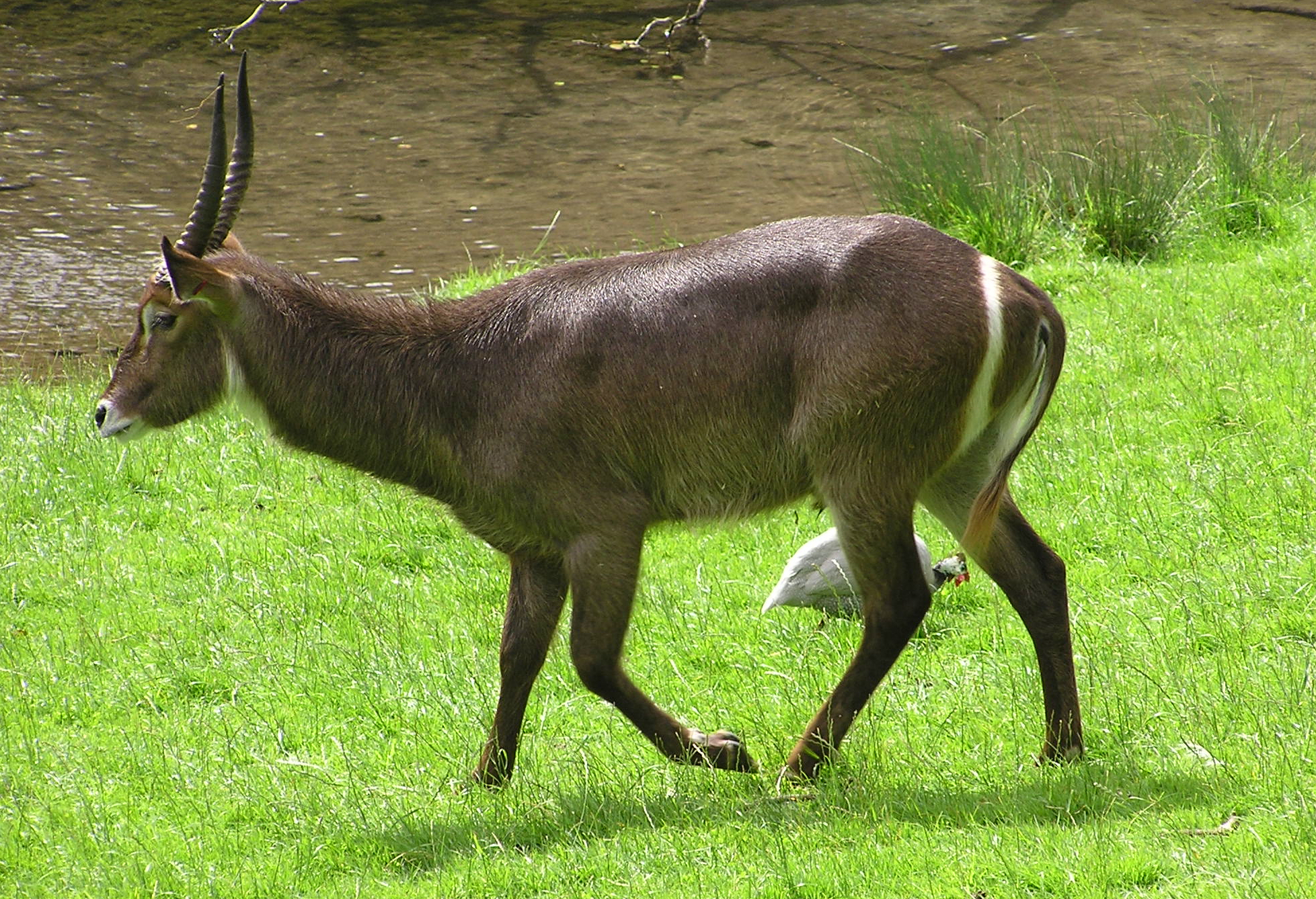 Waterbuck Kobus ellipsiprymnus at Cricket St Thomas Wildlife Park, Somerset, England.